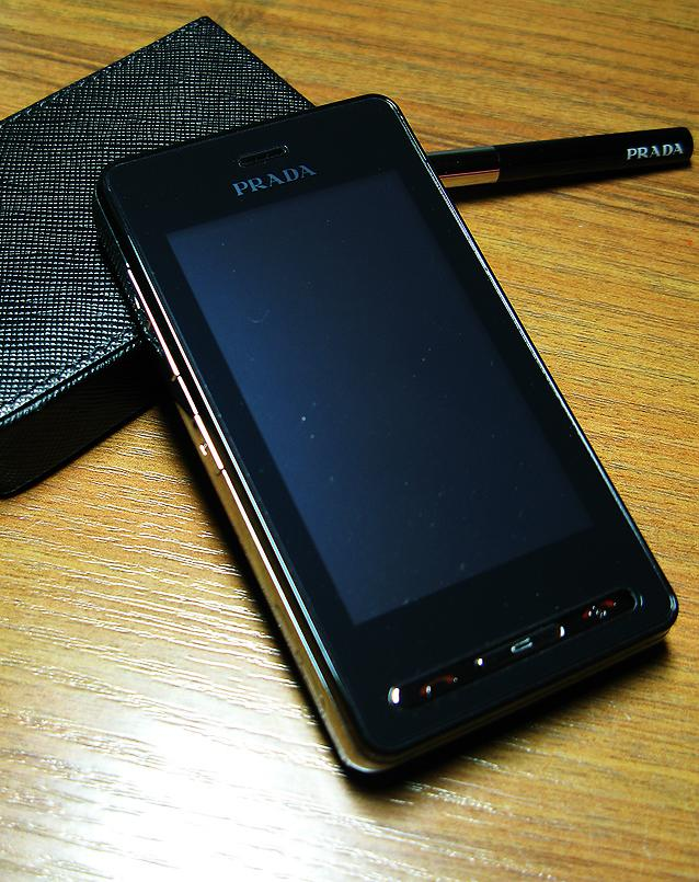 LG Prada phone Korean model. exclusive for Korean. including DMB TV function. also including DMB antenna.